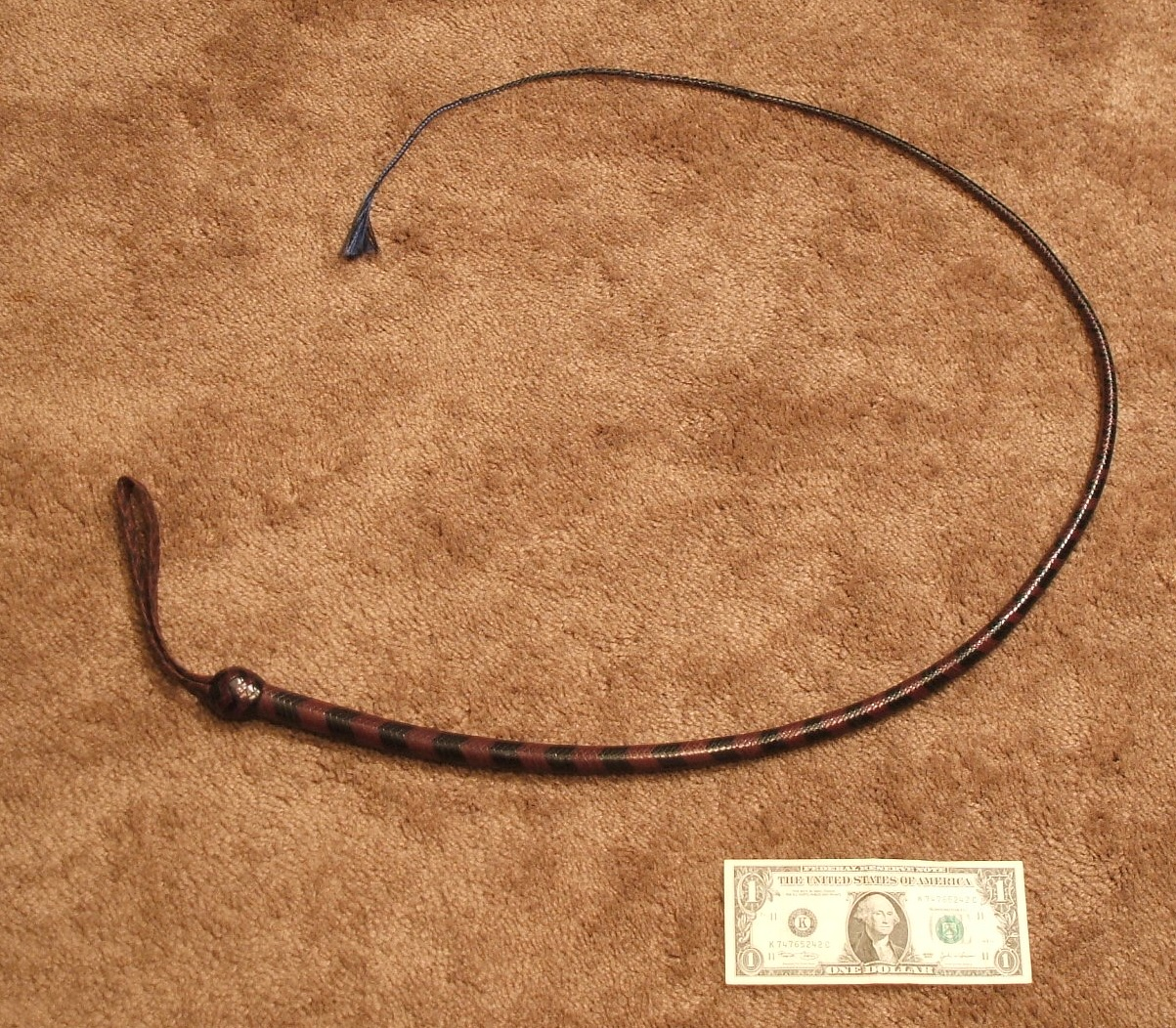 A 4' (1.2m) signal whip used for BDSM play. I, User:OwenX, photographed this on 30 December 2005 in Mississauga, Ontario, Canada using a Fujifilm FinePix F440 digital camera. I am hereby licensing this image to the Wikimedia Foundation in perpetuity under the terms of GFDL.